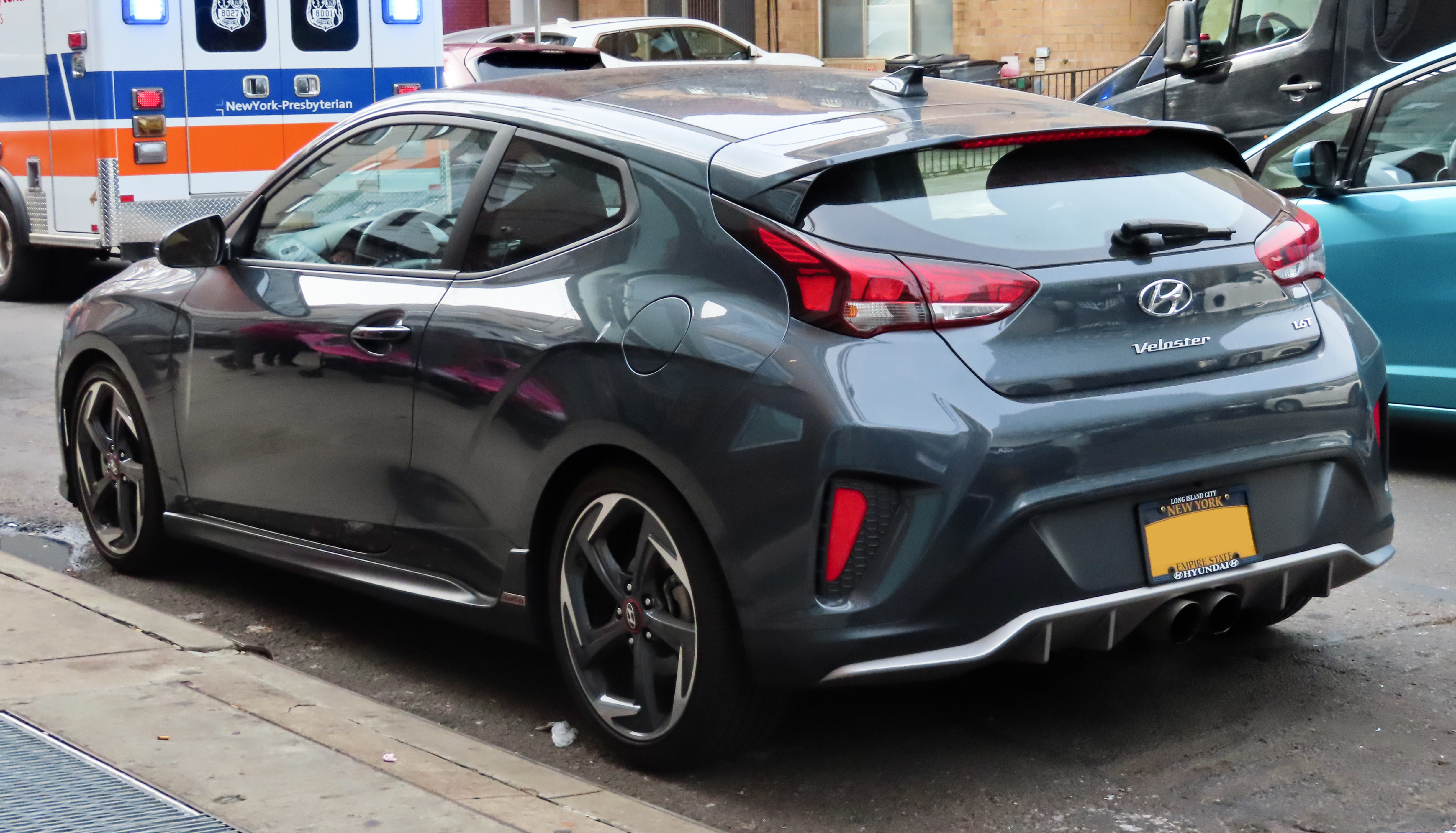 A 2019 Hyundai Veloster 1.6T photographed in Flushing, Queens, New York, USA